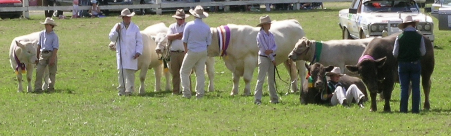 Charolais and Murray Grey bulls on parade, Walcha Show